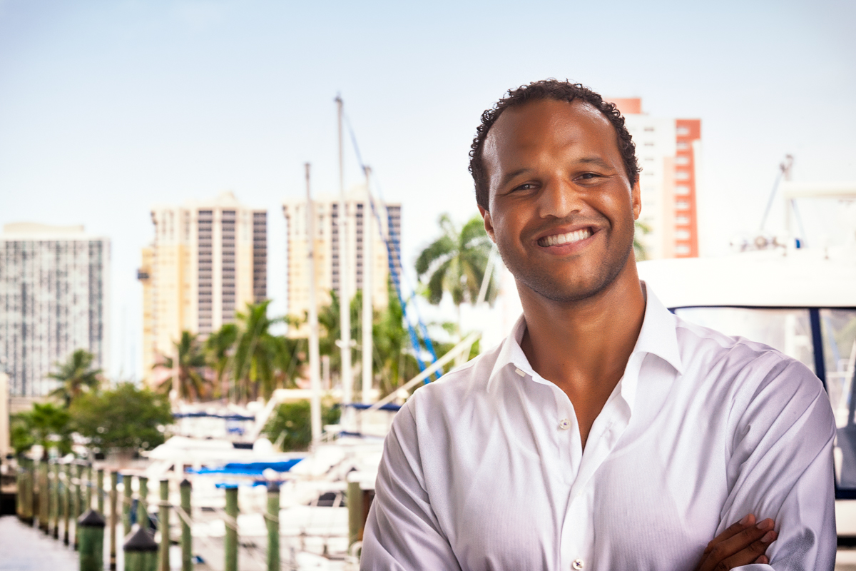 Stephen Bienko, Fort Myers, Florida. Image credit: Bryon McCartney